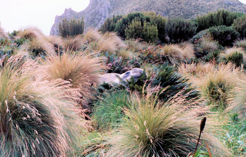 Vagrant adolescent male Elephant seal (Mirounga leonina) resting up in the tussock grasses, Campbell Island, New Zealand. Scanned photo of elephant seal on Campbell Island. This photo was taken by me.